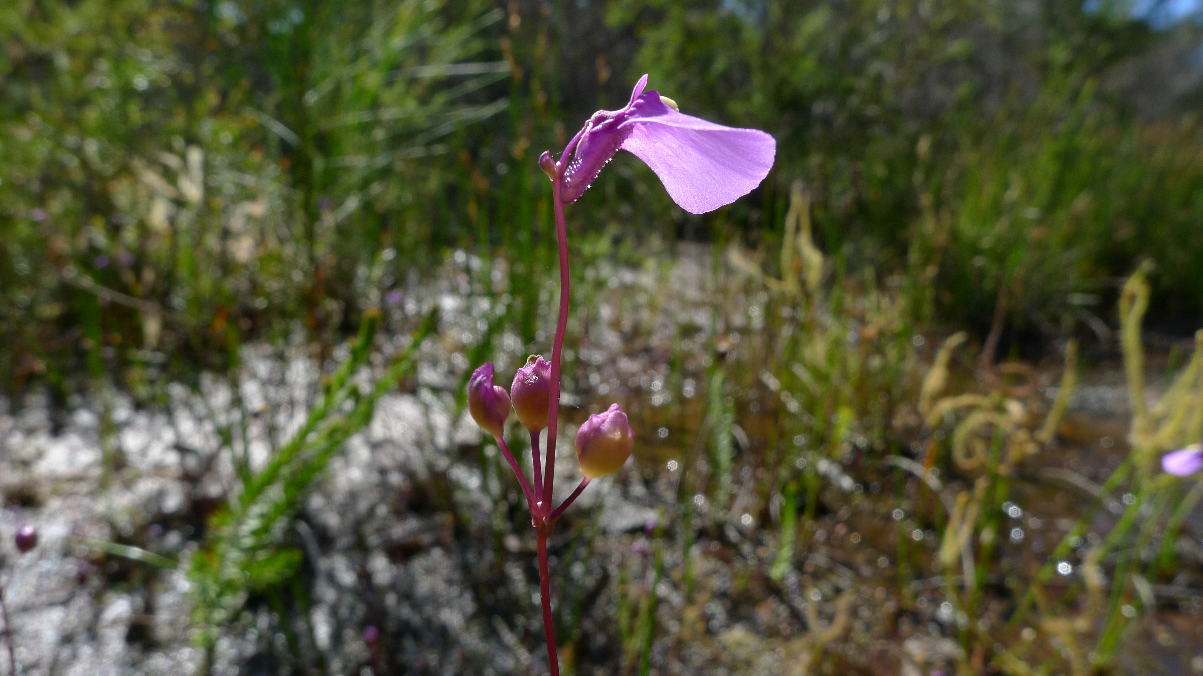 Fairy Aprons, Utricularia dichotoma, darker flower. Dharawal National Park, NSW Australia, January 2014.